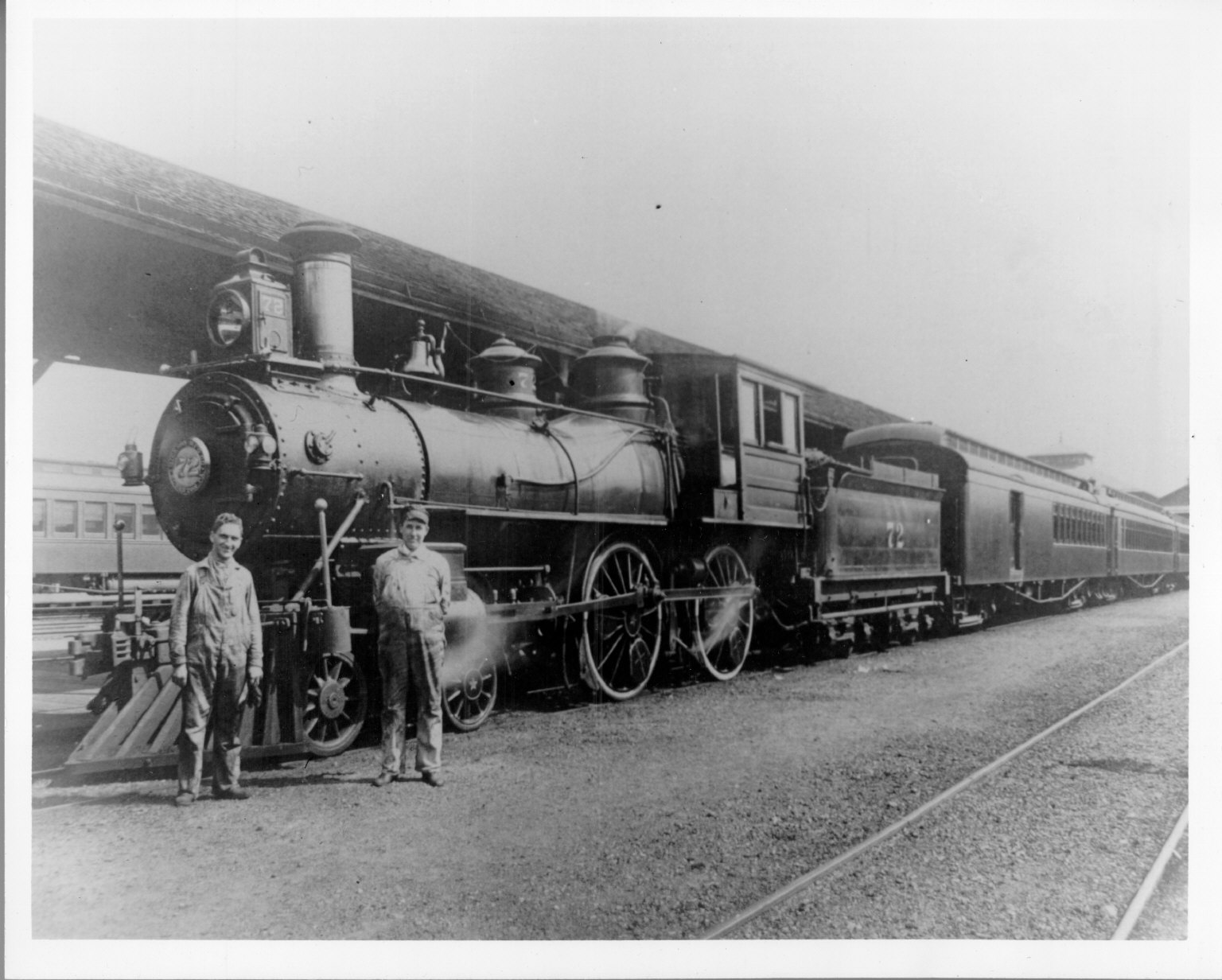 Collection: De Forest Douglas Diver Railroad Photographs, ca. 1870 - 1948, Cornell University Library Title: Loco 72, Passenger Train, Pat- Driver; Weehawken, N.J. Place: New Jersey (State) Medium: Gelatin silver print Provenance: Diver, De Forest Douglas, 1878-1958, Collector Finding Aid: There are no known U.S. copyright restrictions on this image. The digital file is owned by the Cornell University Library which is making it freely available with the request that, when possible, the Library be credited as its source.